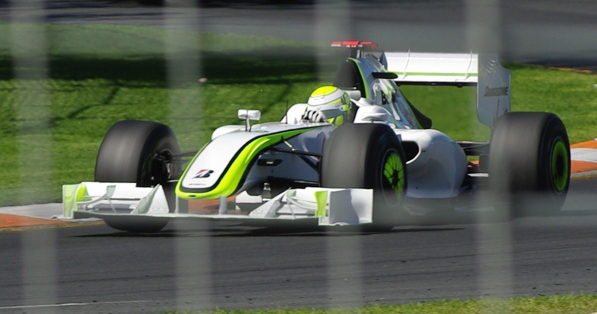 Button leading the Australian GP